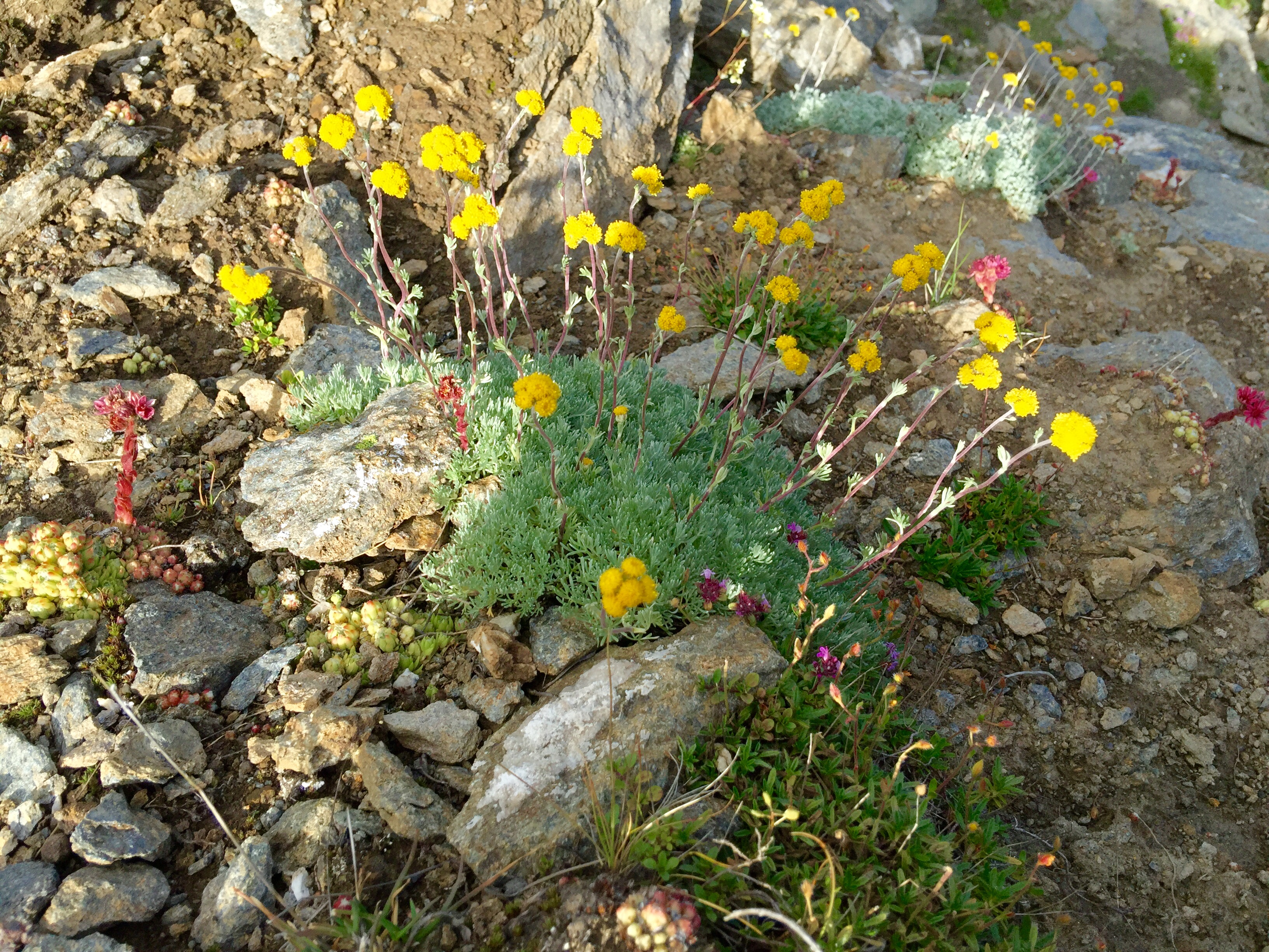 Artemisia glacialis, one of the rarest of its kind (Savoie, French Alps)